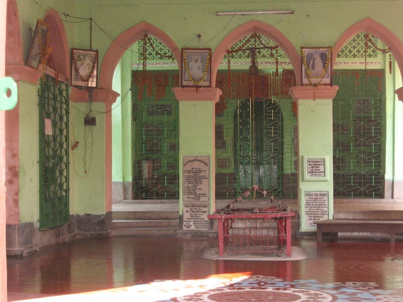 Siddheswari Temple in Ranaghat